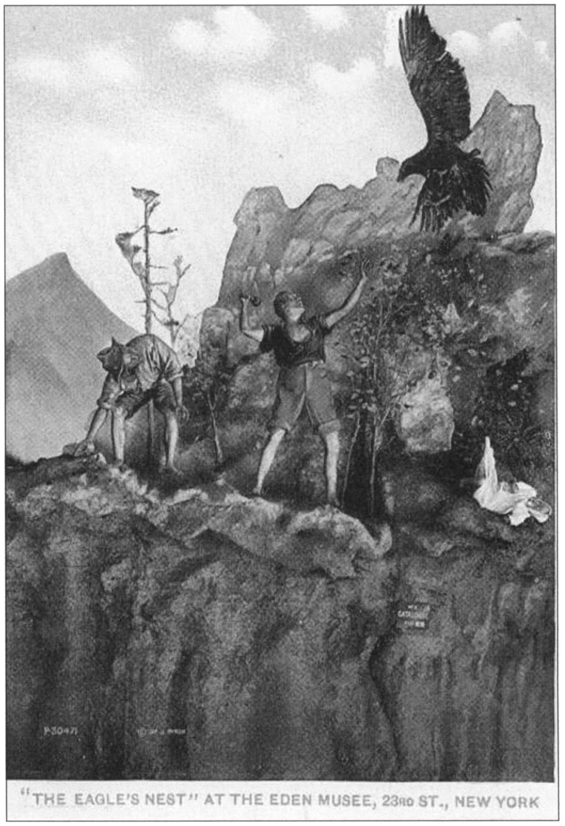 Souvenir postcard by Joseph Byron (1847-1923), ca. 1904, showing The Eagle's Nest, a wax table scene at Eden Musée, Manhattan, New York City. The Musée claimed that the scene of an eagle abducting a baby and being chased by the father has occurred several years before in the Adirondack Mountains. The scene appears to be adapted from a scene in the 2nd act of Jon T. Murphy's The Ivy Leaf, a 1884 play. It was thought that the wax table provided the input for Rescued From an Eagle's Nest, a 1908 film by J. Searle Dawley starring David W. Griffith